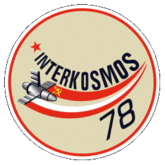 Soyuz 30 logo